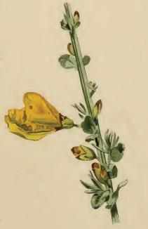 Stainton’s Natural History of the Tineina (1855–1873): Mirificarma mulinella a sprig of broom with a flower attacked by larva